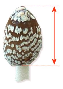 fungus pileus height